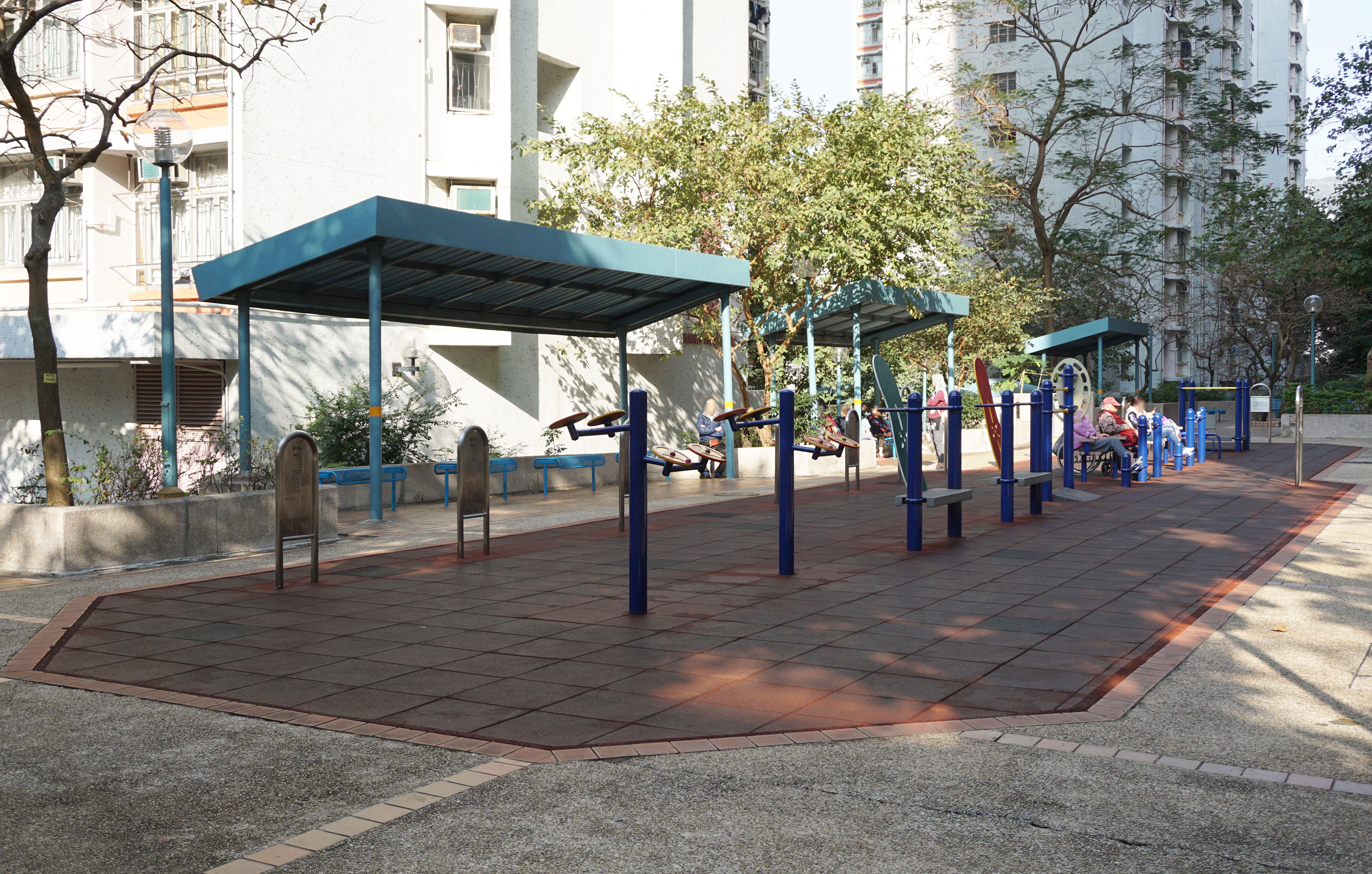 Wang Tau Hom Estate in Lok Fu, Hong Kong.